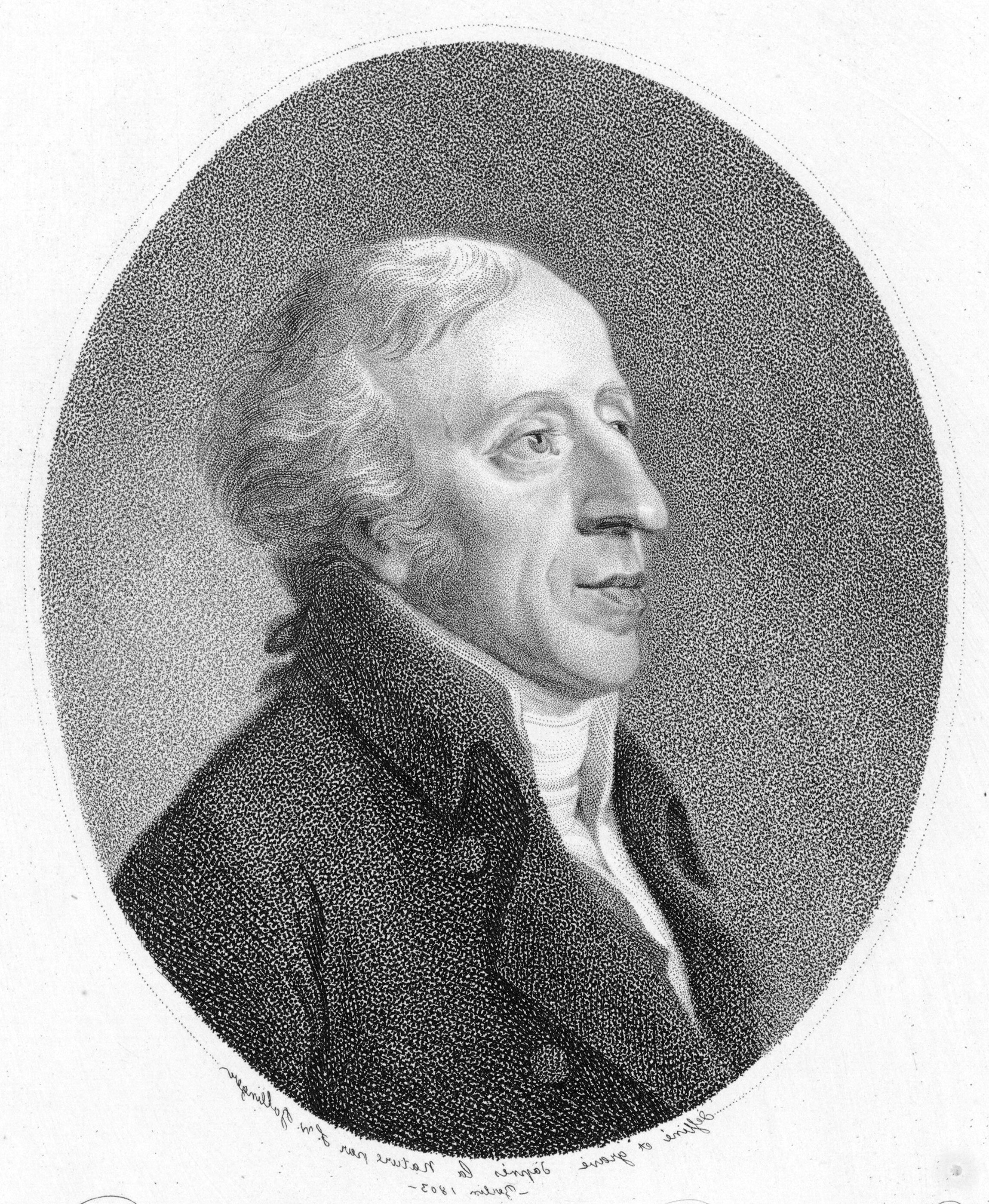 Depicted person: Vincenzo Righini